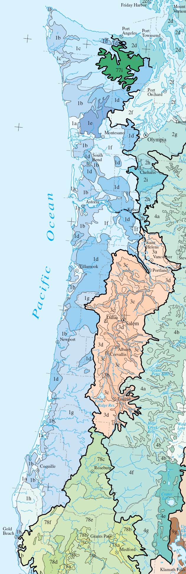 Level IV ecoregions in the Coast Range ecoregion, as defined by the EPA. This map is a draft and may now be slightly outdated. For more information about these ecoregions, see [1]. Note: Sections of the Coast Range ecoregion in California have not been mapped yet.